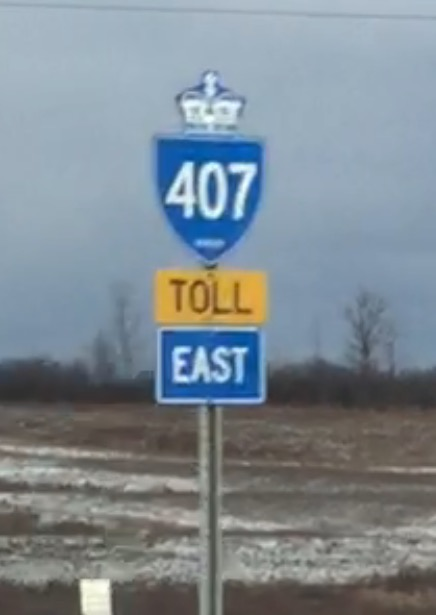 Ontario Highway 407 shield seen alongside the provincially owned highway section through Pickering in January 2017.